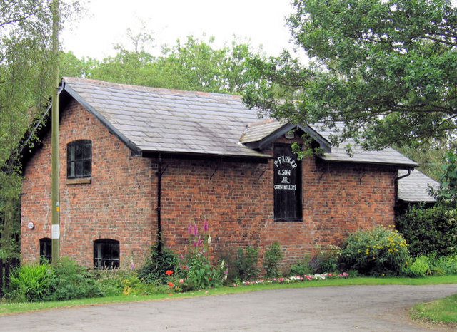 Bunbury Mill. 19th Century mill that operated until 1960. Recently restored and open to the public and school parties